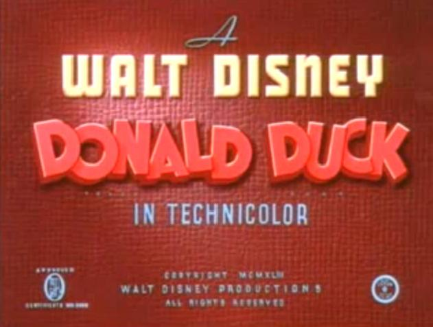 Title card used for the "Donald Duck" series of animated shorts produced by Walt Disney. Taken from the public domain film The Spirit of '43, which is in the U.S. public domain due to the fact that it was created for the government of the United States.